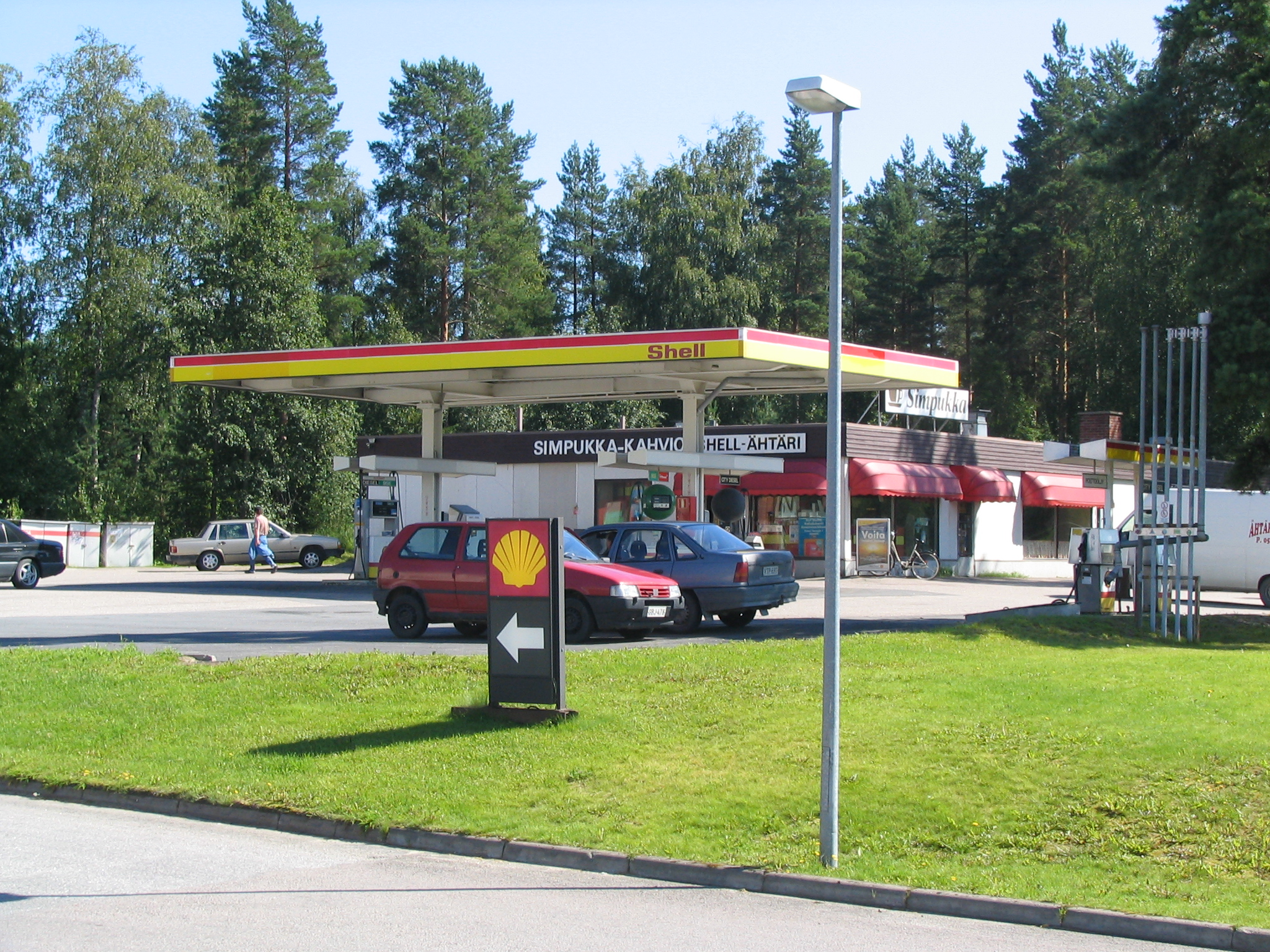 Shell petrol station in Ähtäri, Finland